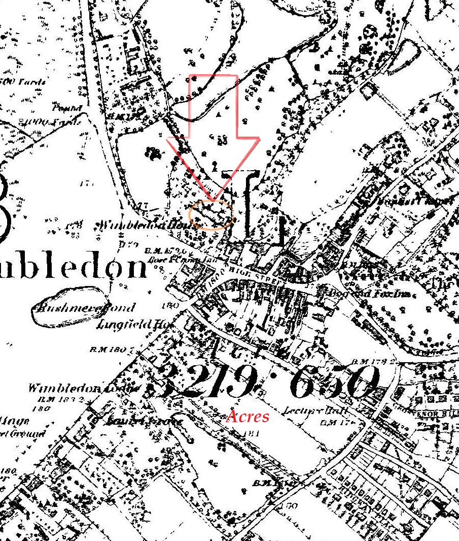 Wimbledon House confirming at end of high street unlike Wimbledon Park House c.1900 demolished